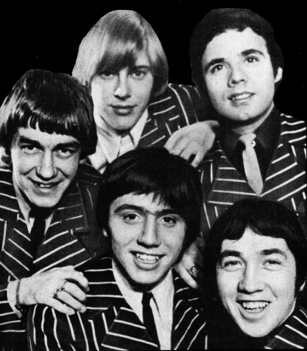 Trade ad for The Easybeats's single "Friday On My Mind".To better adapt it to his respective Wikipedia article, the ad was cropped and cleaned in a graphics editing program. The original can be viewed at the source below.